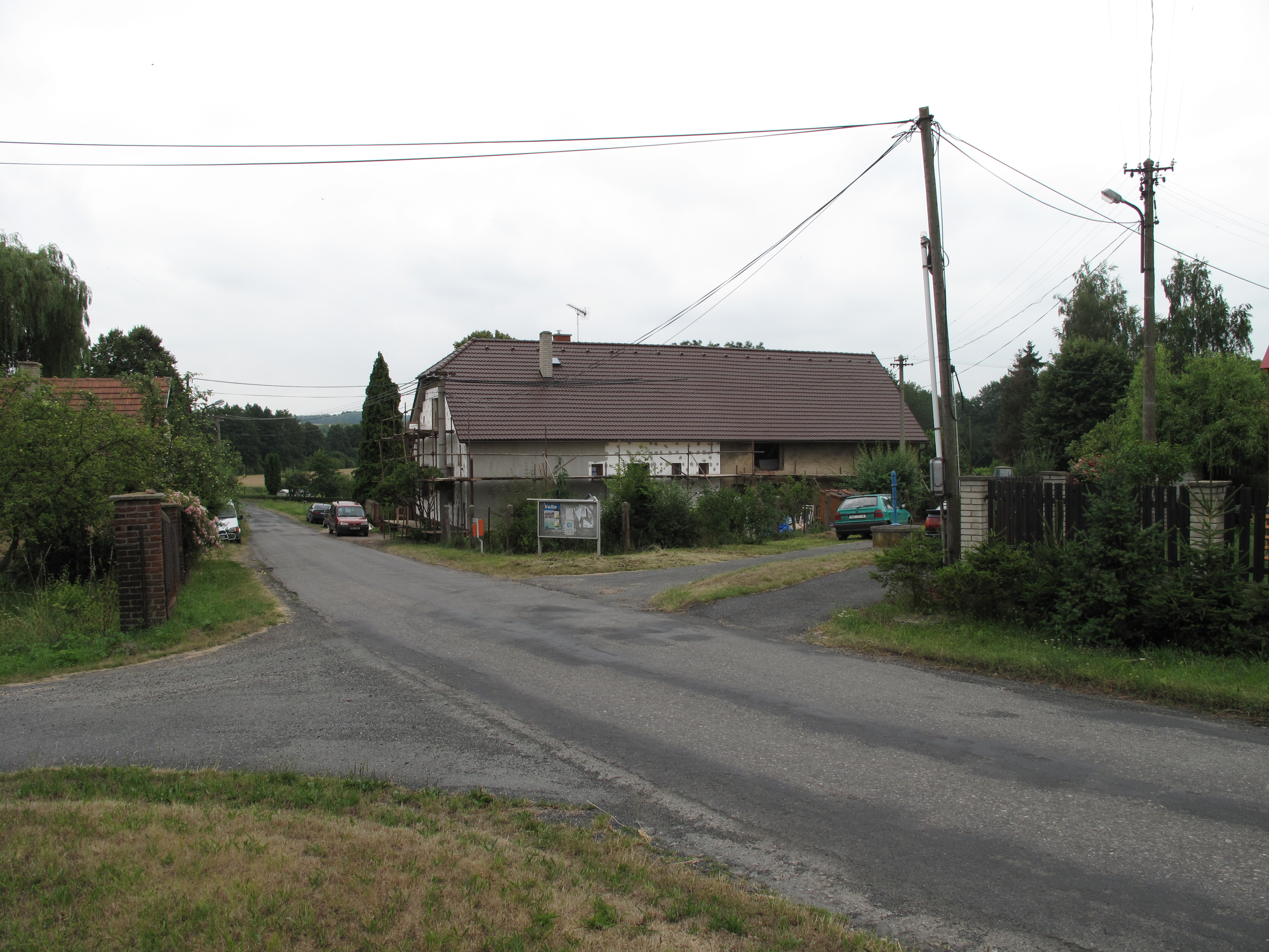 This photograph was taken within the scope of the second year of the 'Czech Municipalities Photographs' grant.